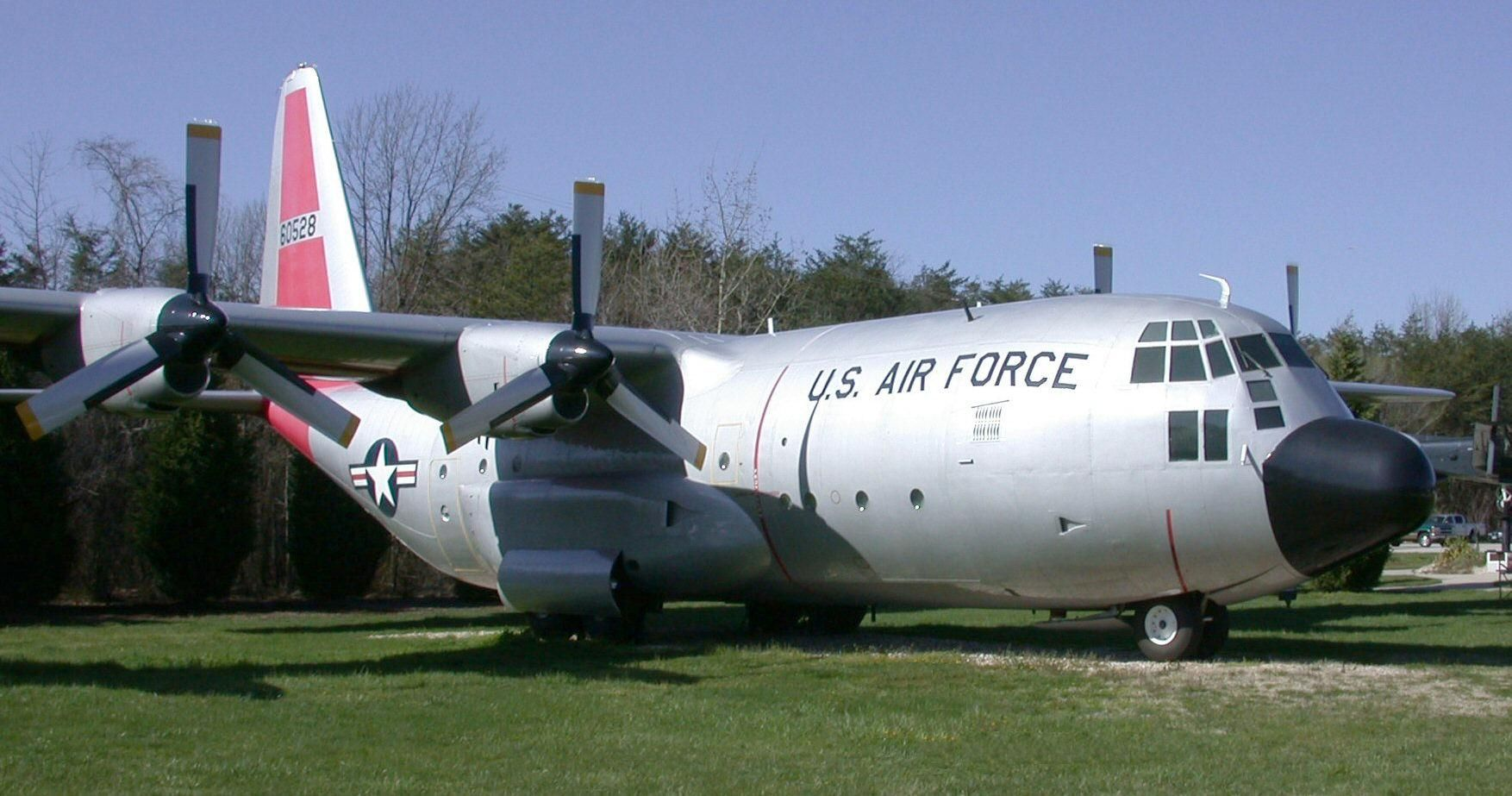 Image title:A replica of 56-0528, a C-130A-II "Sun Valley" reconnaissance aircraft shot down over Armenia on 2 September 1958, on display at the National Cryptologic Museum, Fort Meade, Maryland (real identity - C-130A-45-LM, c/n 3160, s/n 57-0453). Image from Public domain images website